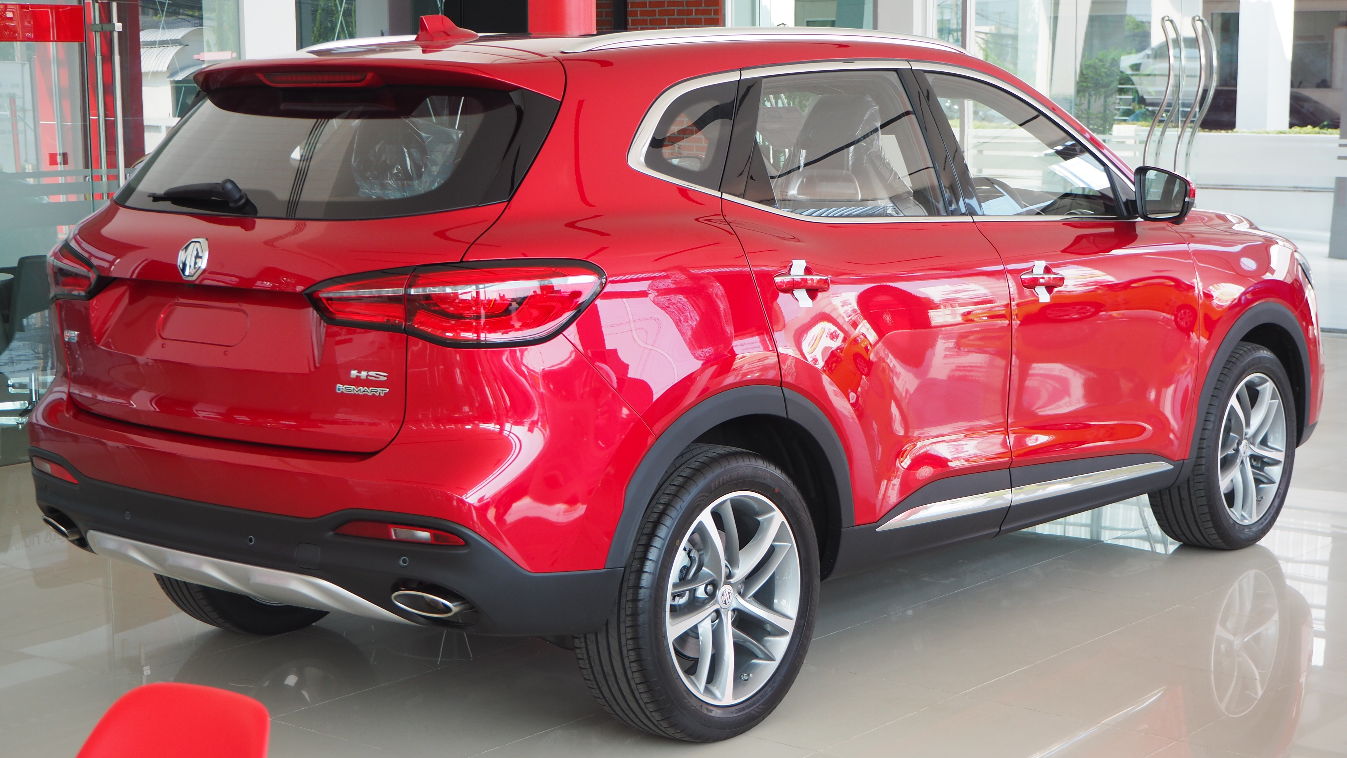 2019 MG HS Turbo X in MG Khon Kaen, Khon Kaen, Thailand.